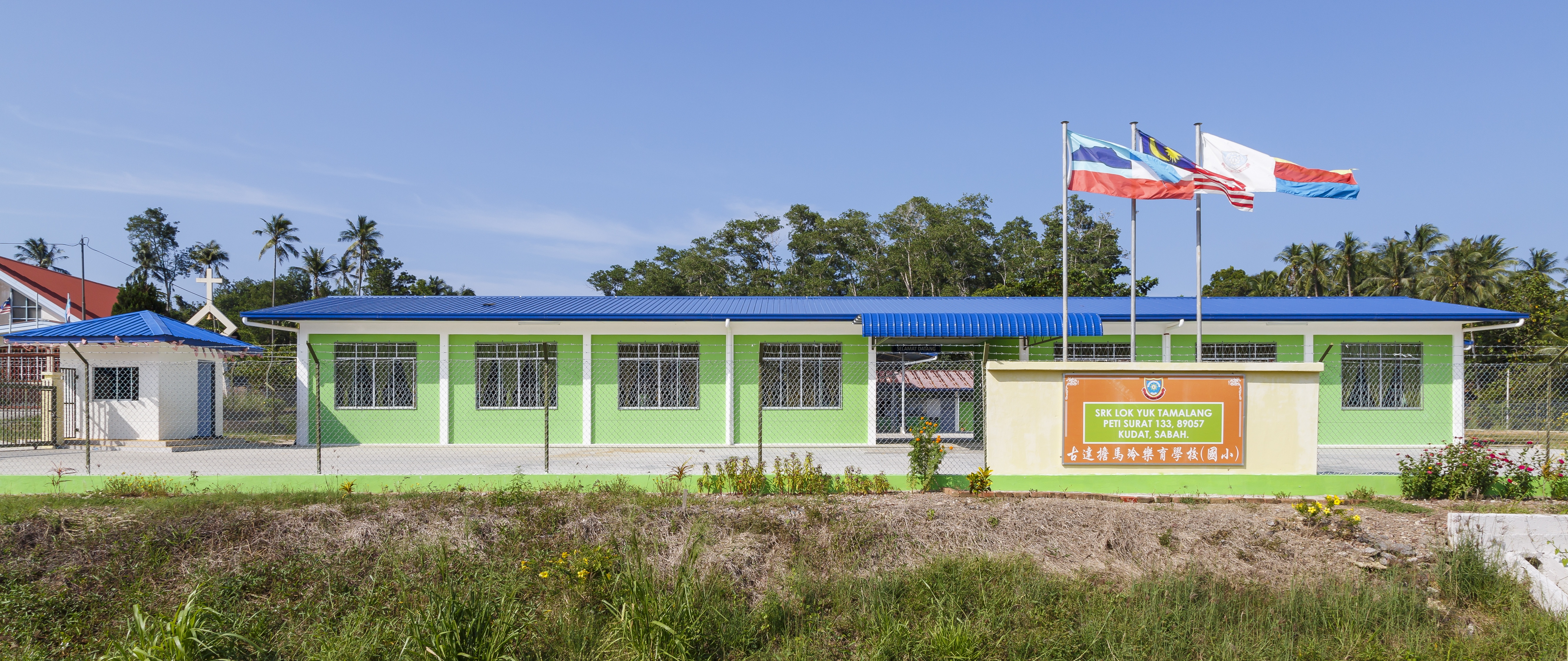 tamalang, Kudat, Sabah: SK Lok Yuk Tamalang, Kudat - a primary school